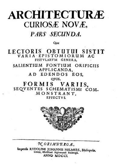 Title page